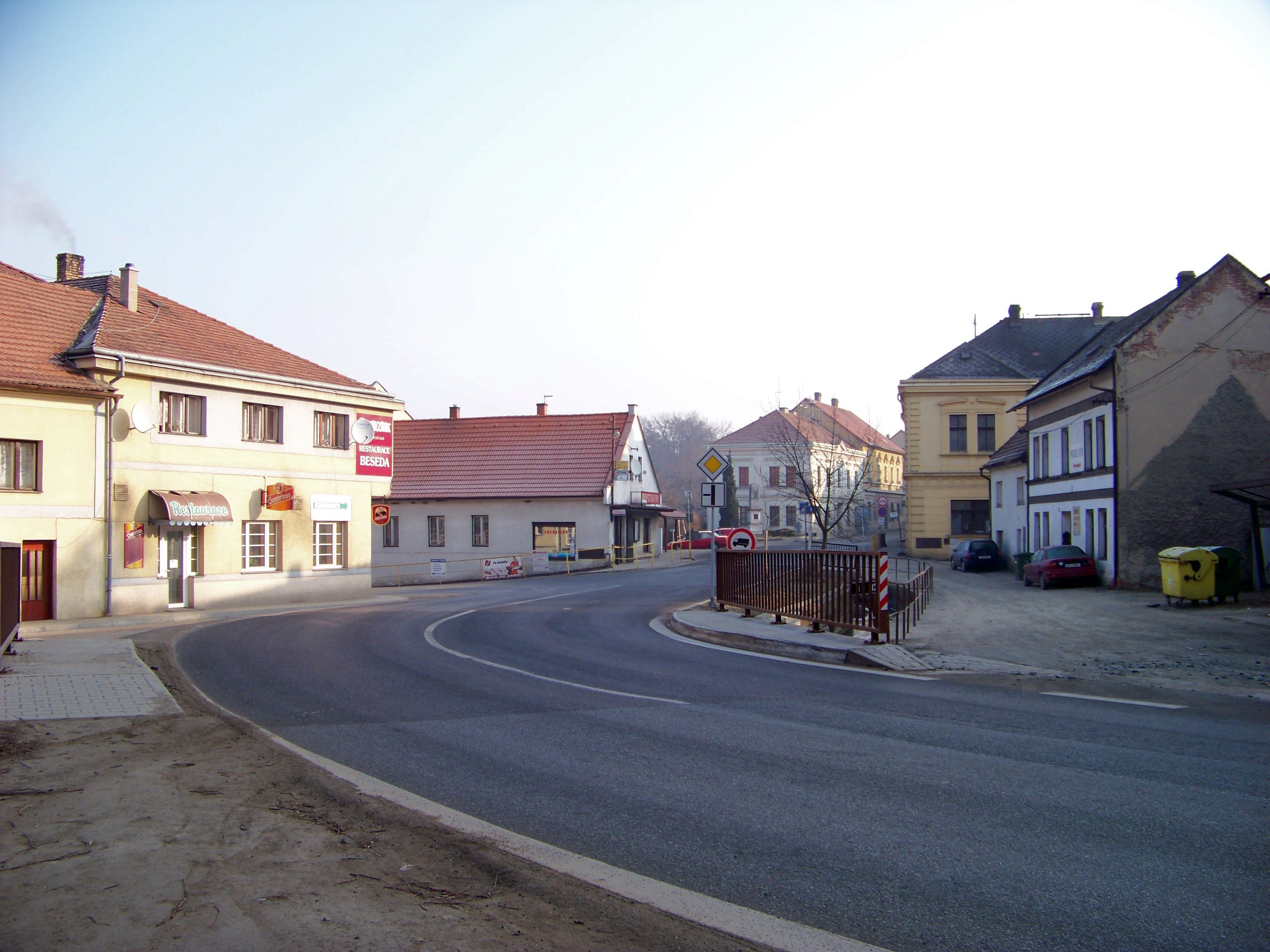 Liběchov, Mělník District, Central Bohemian Region, the Czech Republic. V. Levý Square, Pražská and Rumburská street (road I/9).